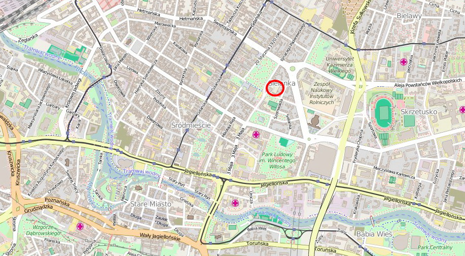 Location in Bydgoszcz